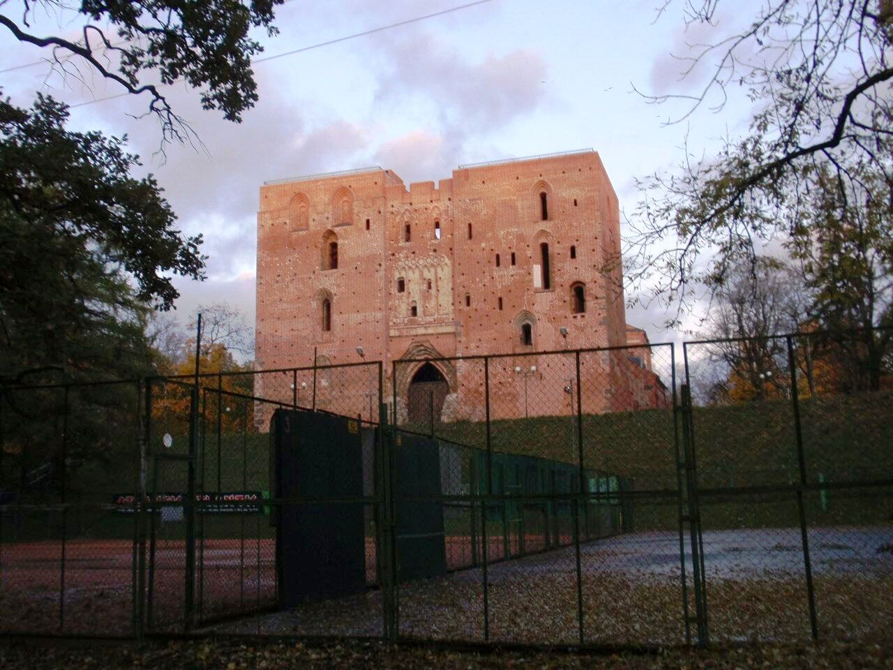 Ruins of Tartu Cathedral.